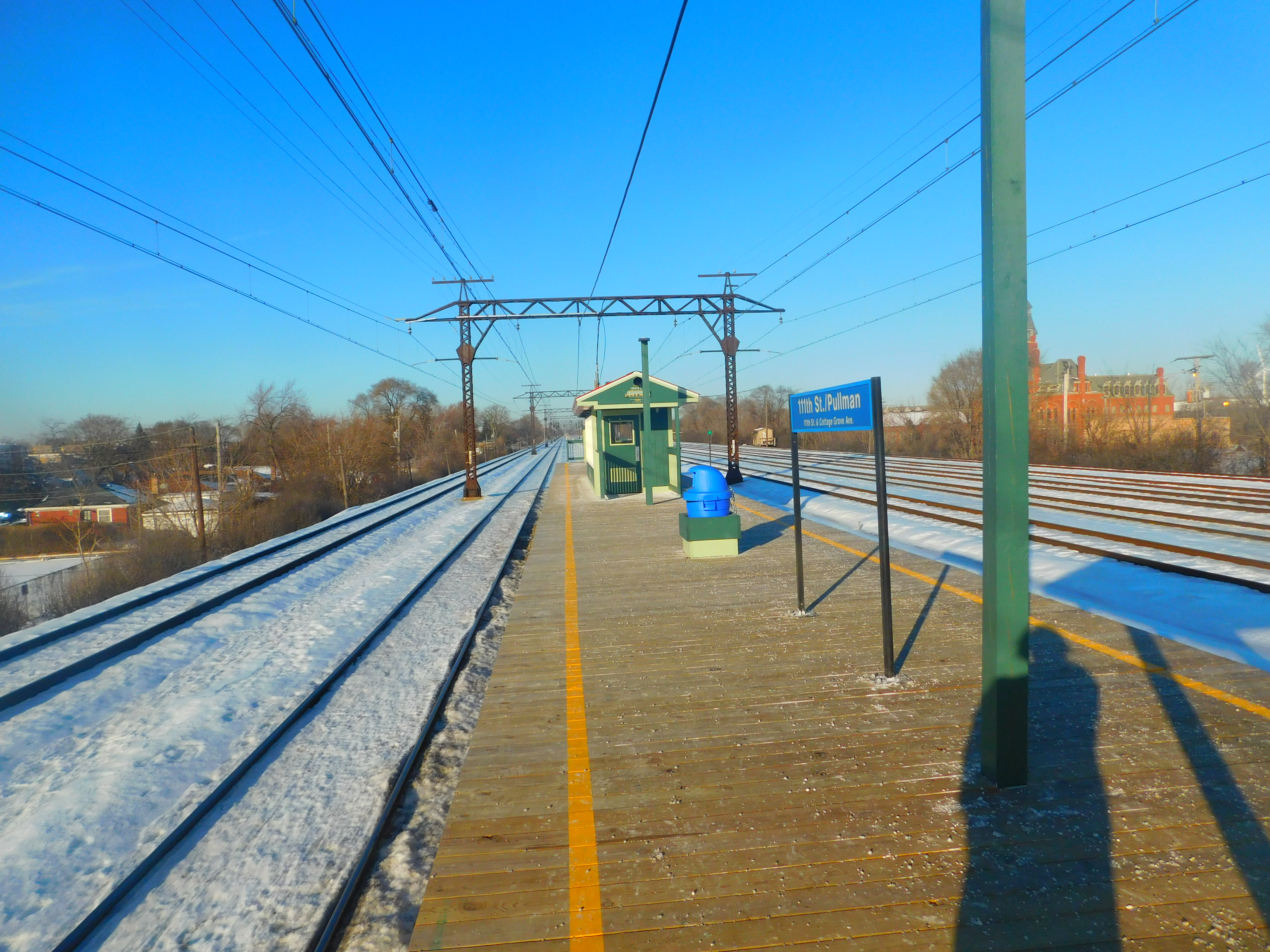 The 111th Street (Pullman) station for Metra post-restoration in December 2016.